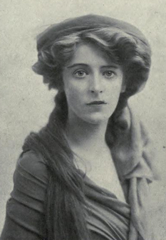 May Leslie Stuart, from a 1910 publication. A white woman with long hair, wearing a soft, draping garment.